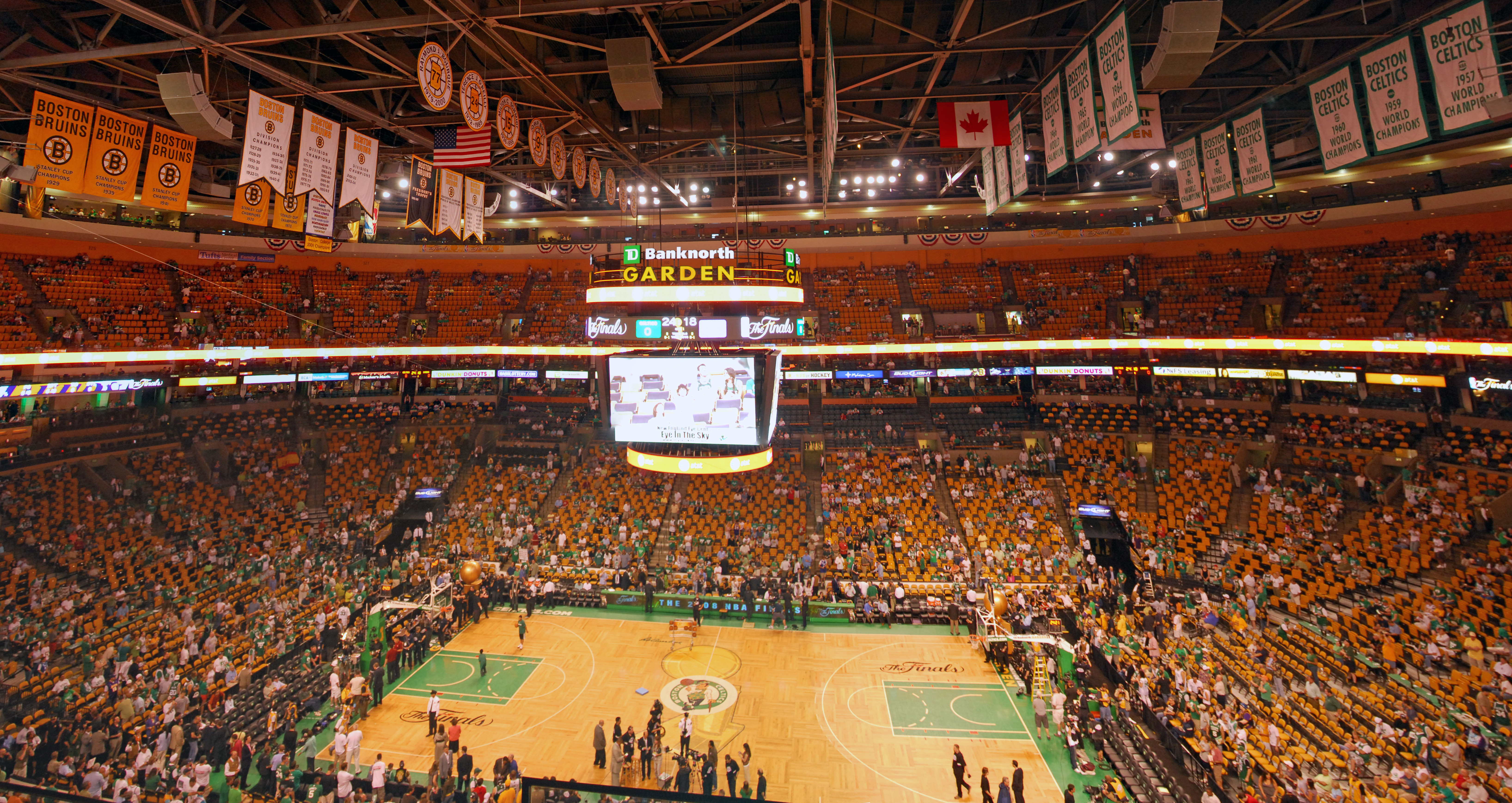 TD Banknorth Garden